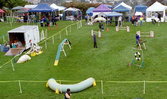 Dog agility field part 1 of 2. Shows agility equipment set up on a competition field. To go with the dog agility entry.